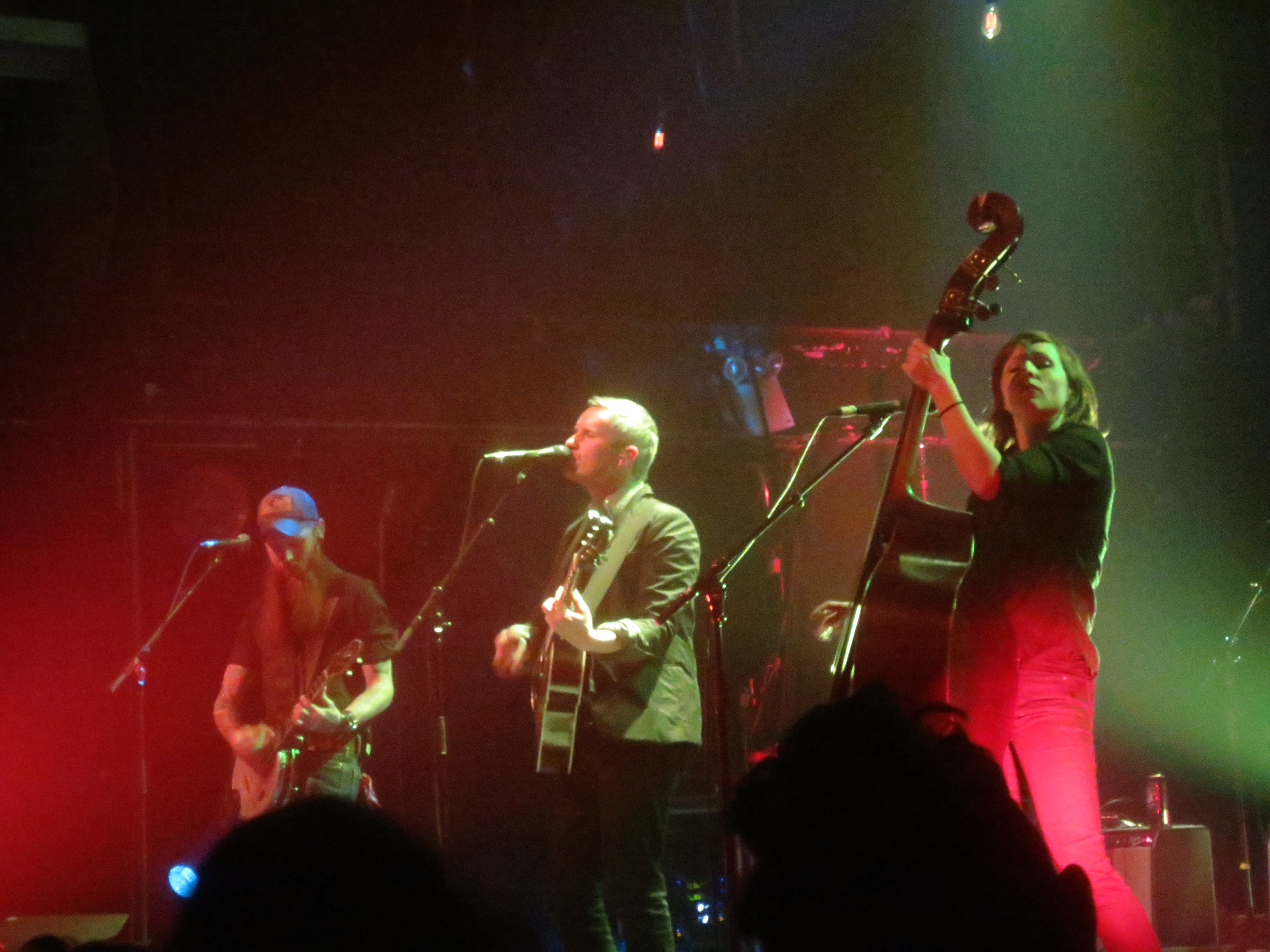 The Devil Makes Three at Terminal 5, New York, 02/11/2016